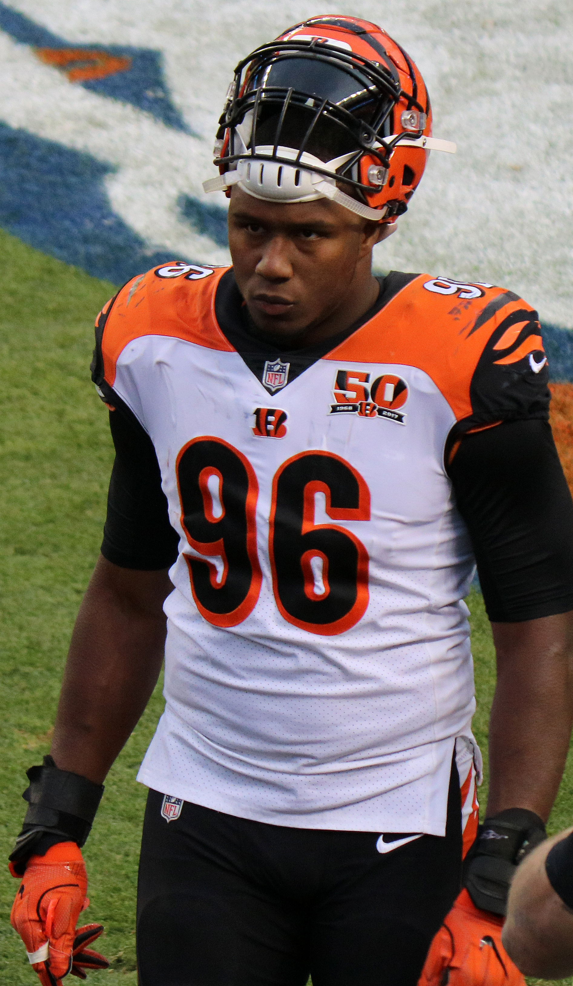 Carlos Dunlap, a National Football League player.